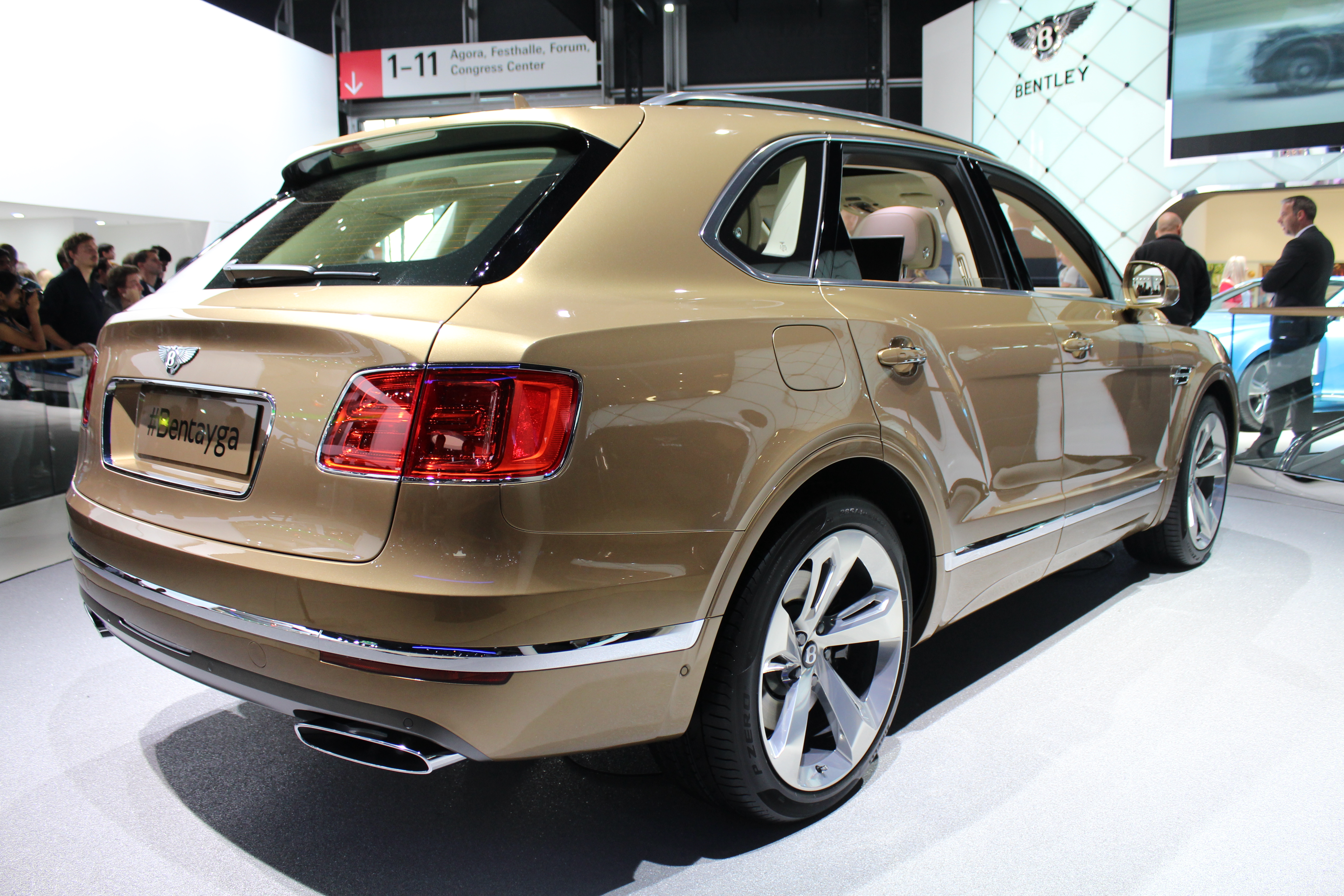 Passenger vehicles being displayed in 2015 International Motor Show Germany.